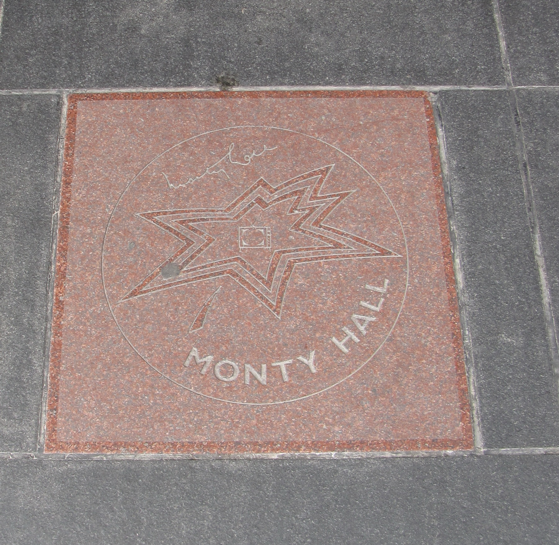 Monty Hall's star on Canada's Walk of Fame